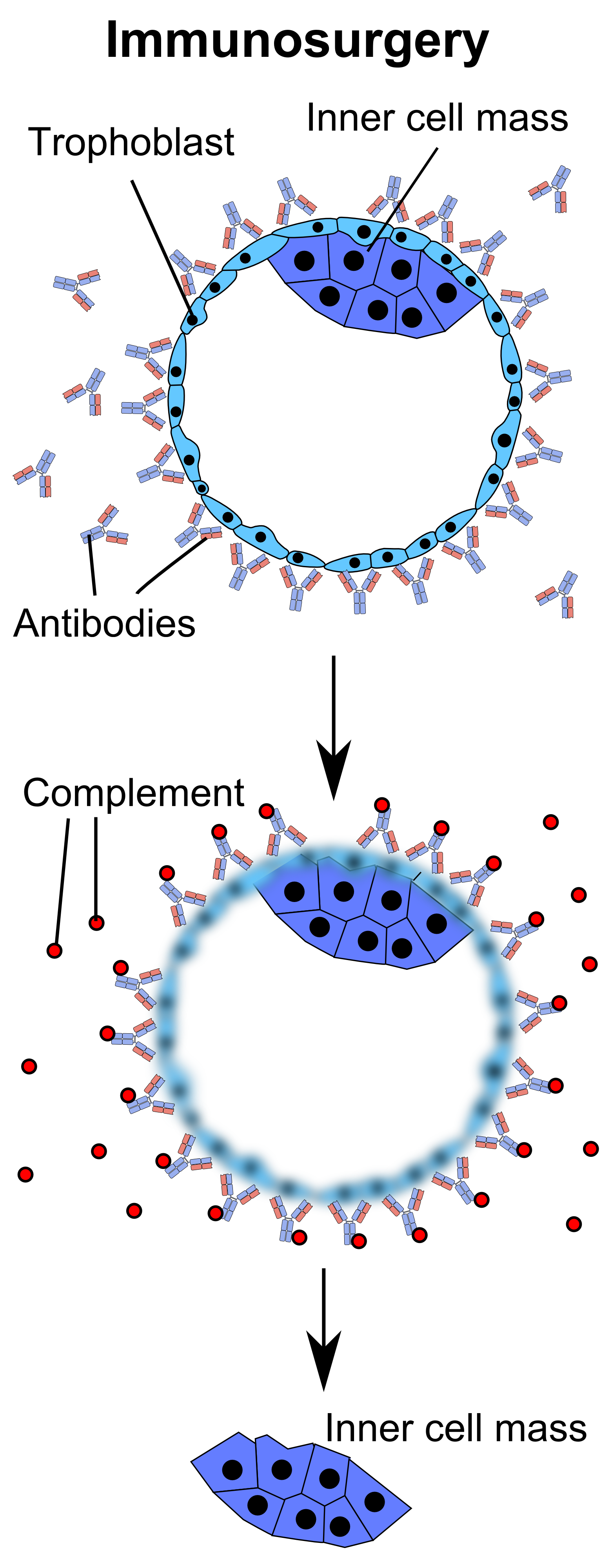 Immunosurgery of a blastocyst in order to isolate the inner cell mass.